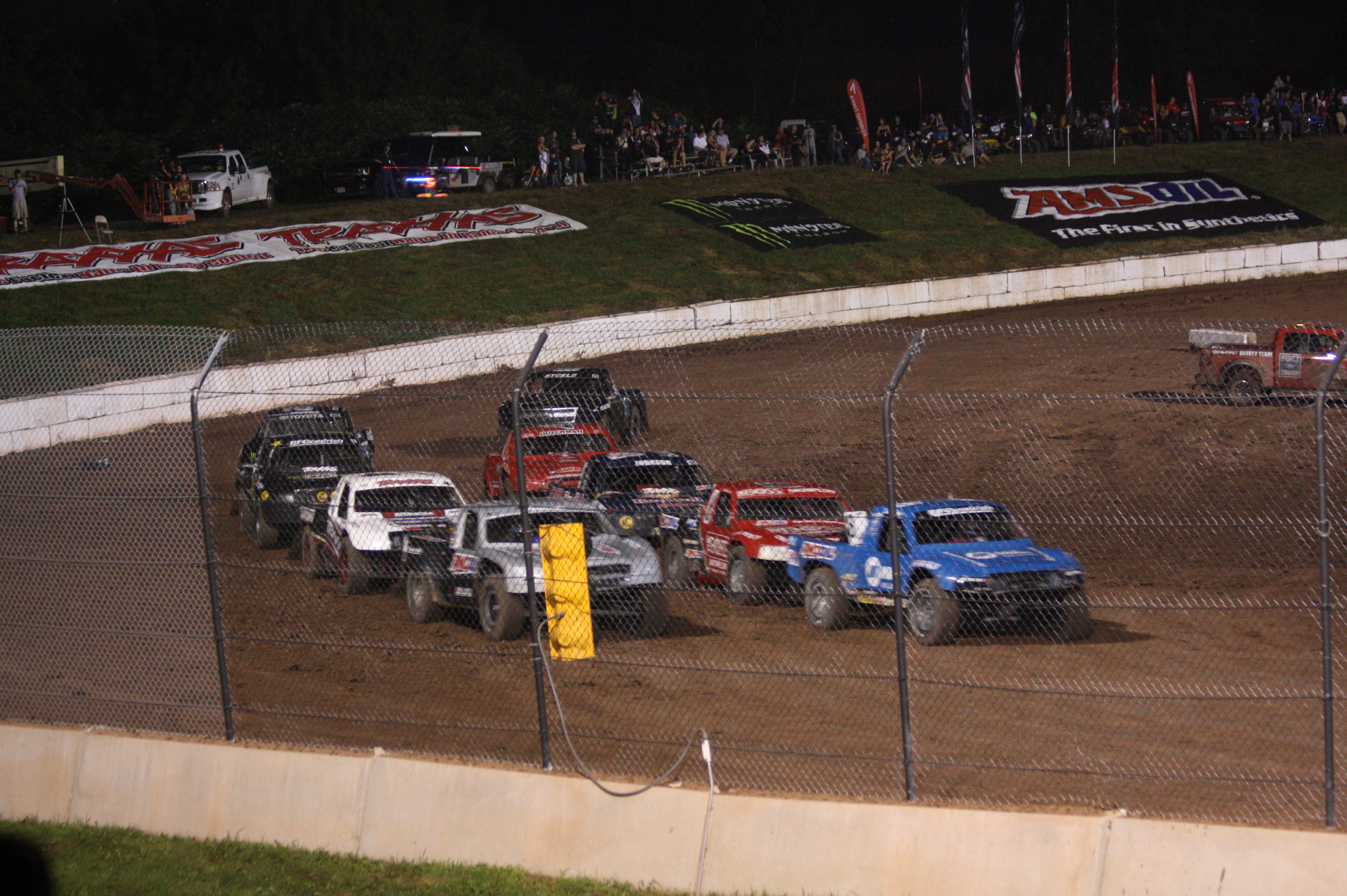 Off Road Driver Scott Taylor leading the field on a restart heading onto the frontstretch in his TORC Pro2WD trophy truck at the Sunnyview Expo race track at Oshkosh, Wisconsin.